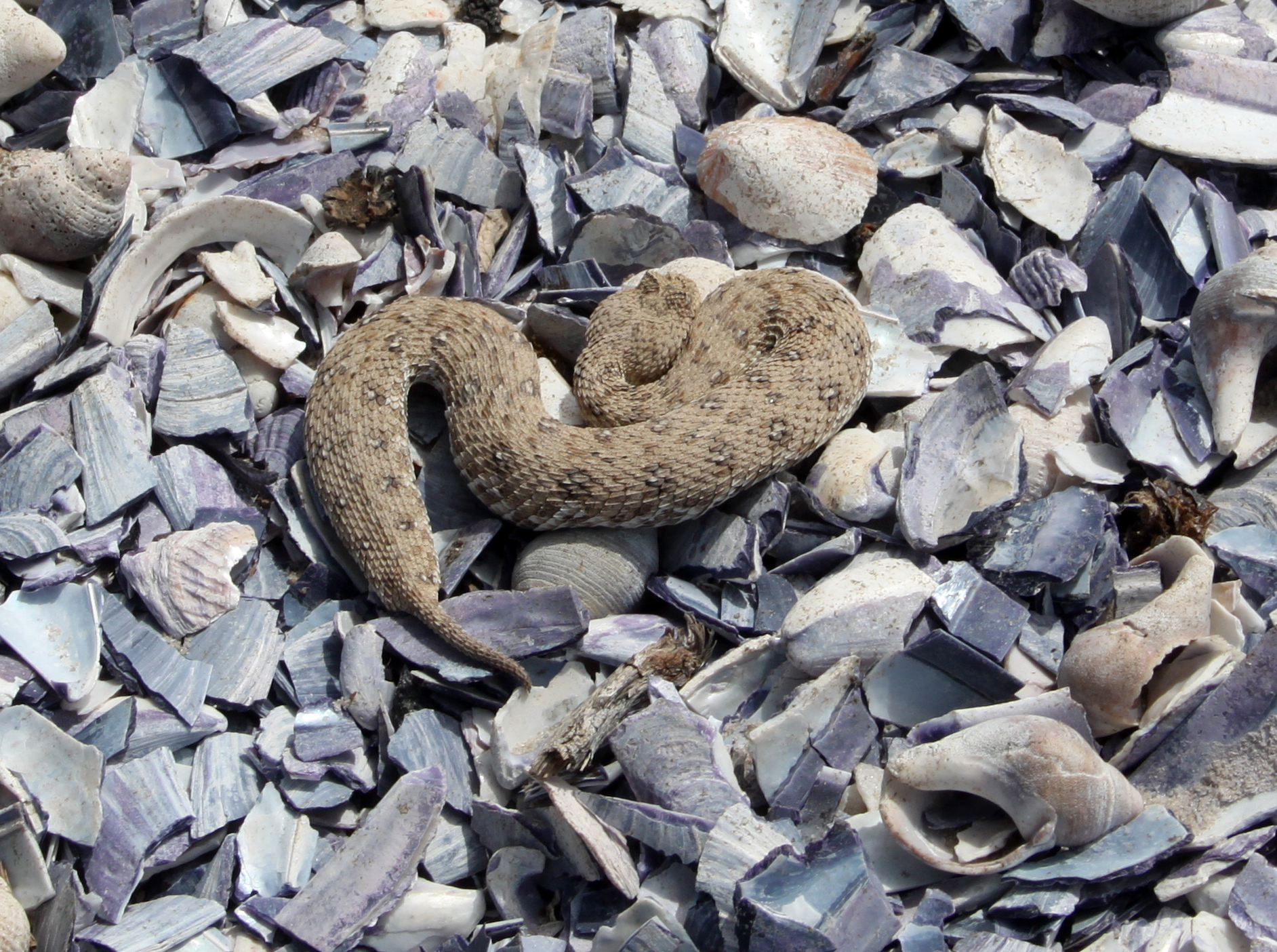 Namaqua dwarf adder